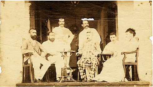 Picture of a group at the Hôtel de l'Univers in Aden. The man sitting on the right was believed (in 2010) to be be Arthur Rimbaud. 1880. 9.6 × 13.6 cm (3.8 × 5.4 in). Note: person names given in annotation are borrowed from this document.